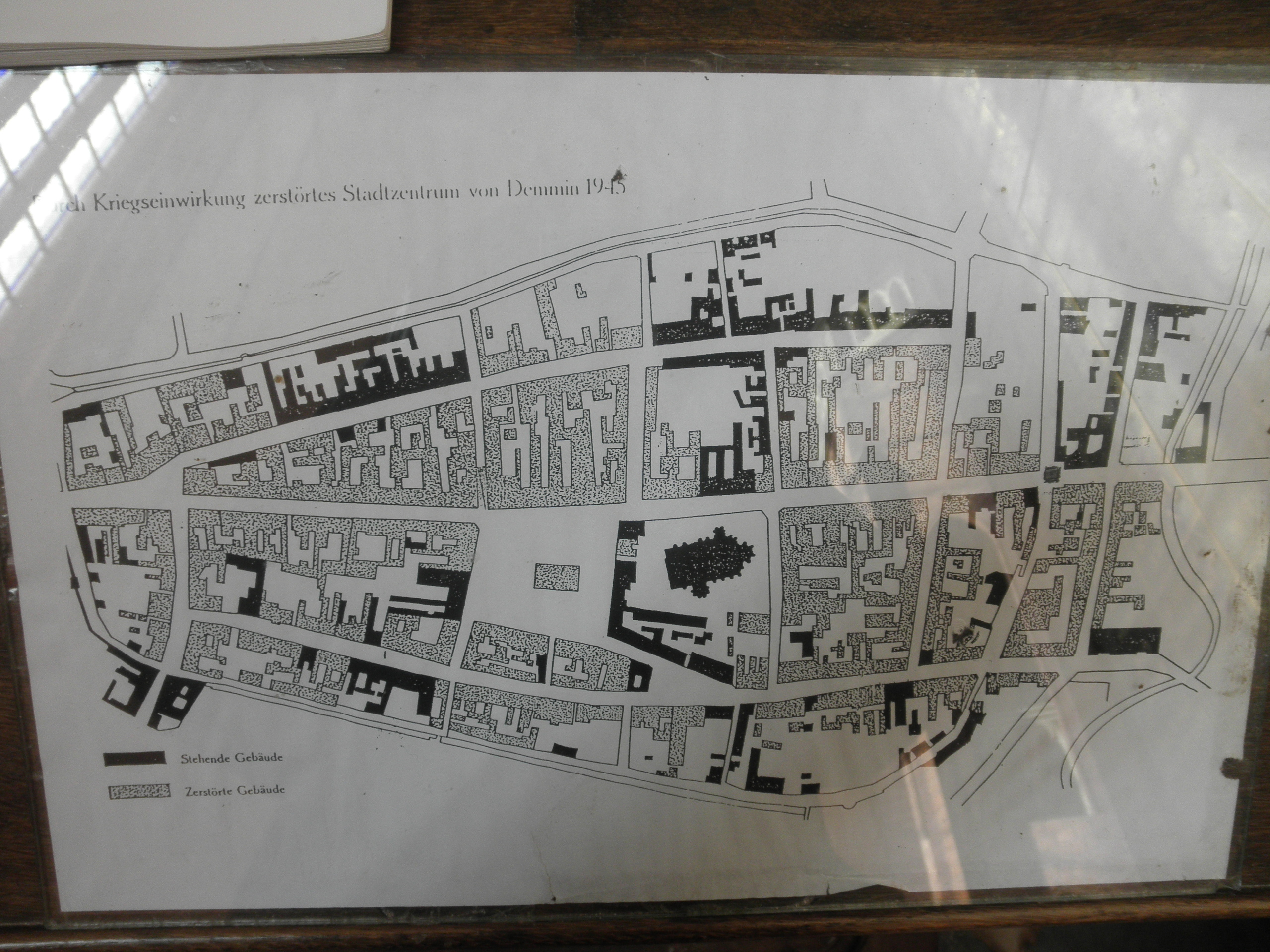 Demmin: Demolished Areas in 1945